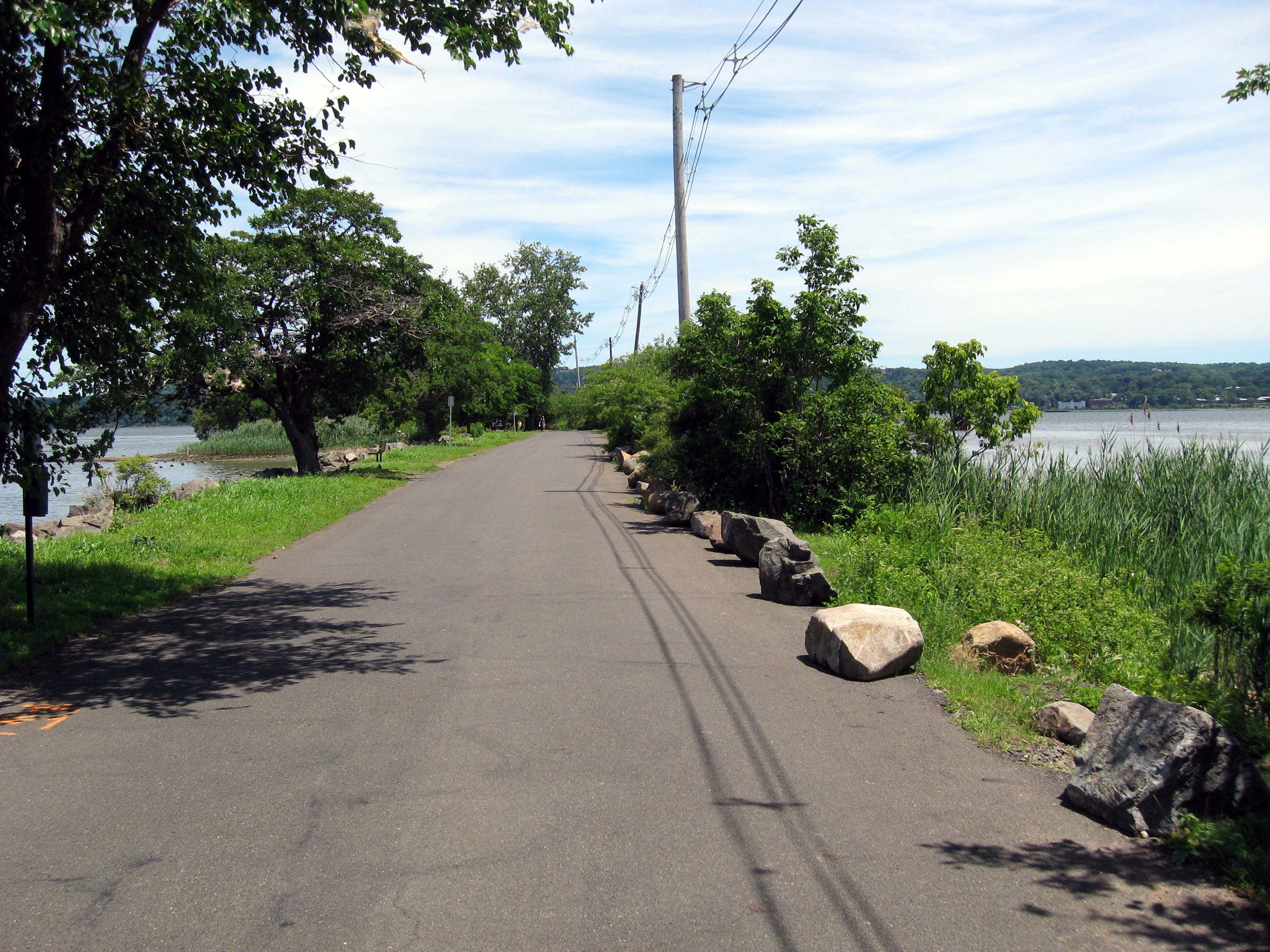 Looking west along the eastern end of the former railroad pier of Piermont, New York on a sunny midday